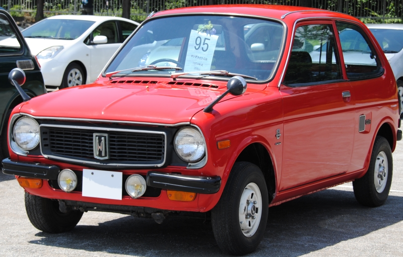 Honda Life Touring GR